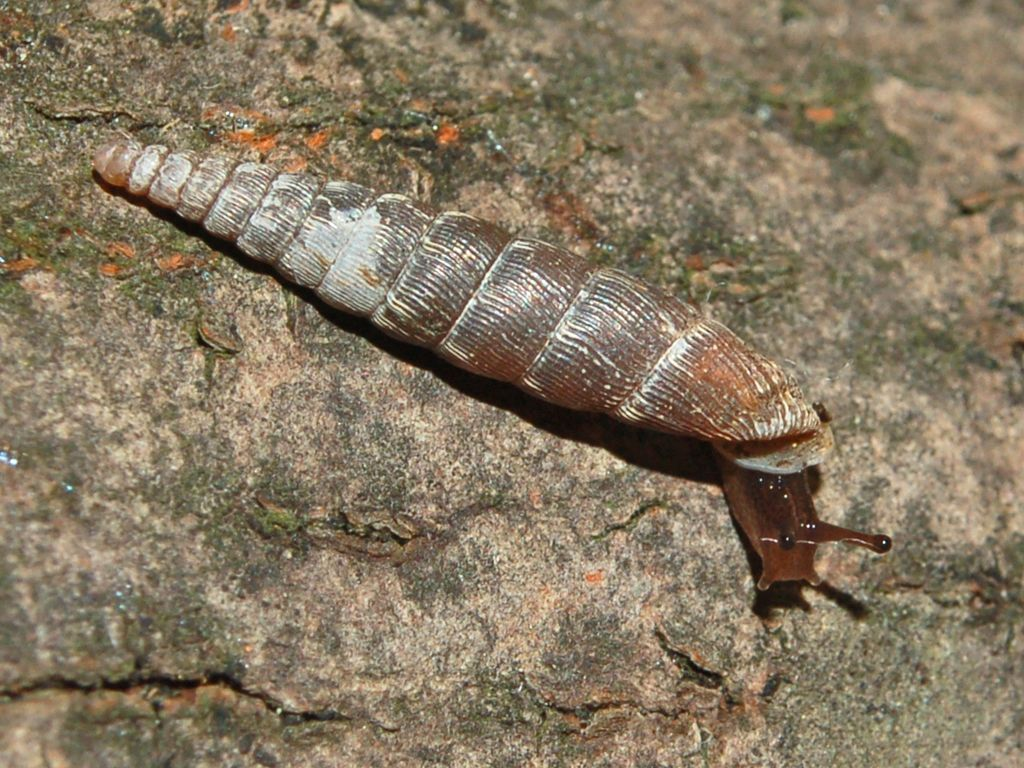 Clausilia bidentata var. crenulata in Acquasanta, Genova, Italy